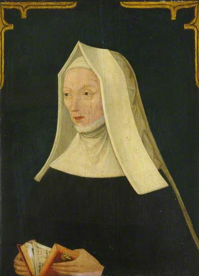 Portrait of Lady Margaret Beaufort (1443–1509), Countess of Richmond and Derby, from Christ's College Old Library, one of many such portraits in Christ's College